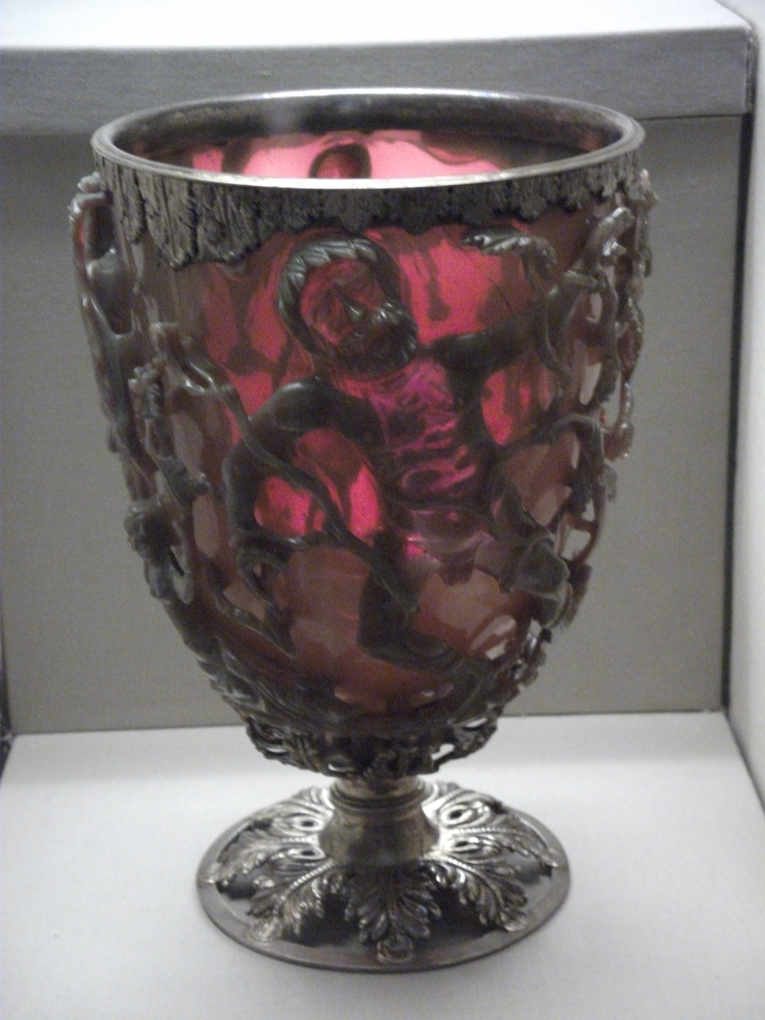 Lycurgus Cup, no flash